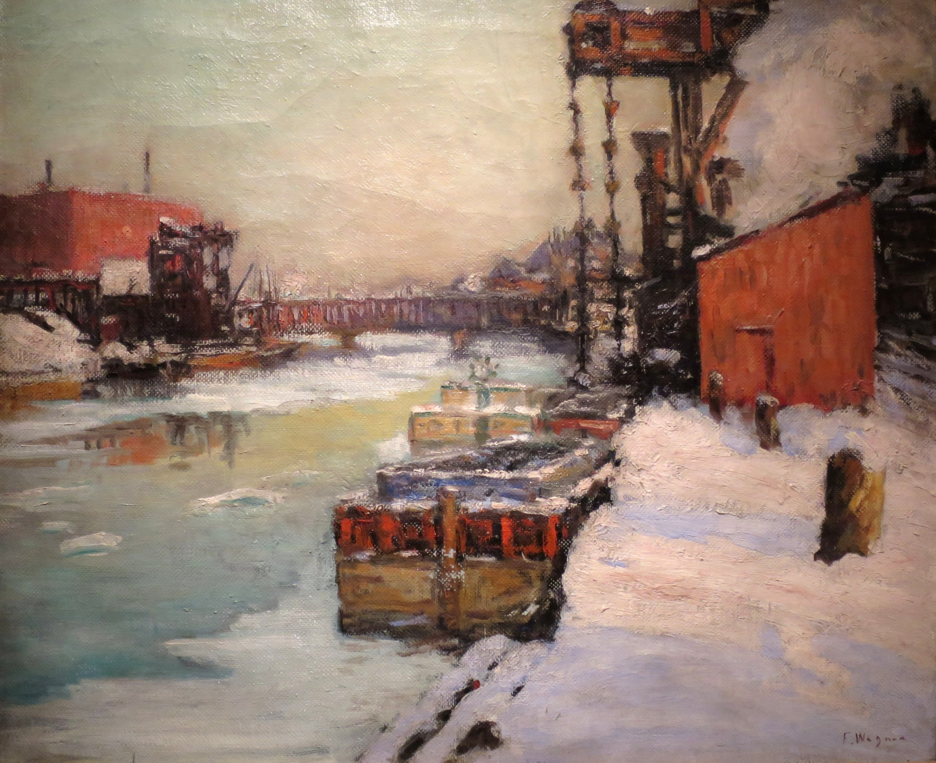 Delaware Canal by Fred Wagner, by 1926, oil on canvas, Reading Public Museum